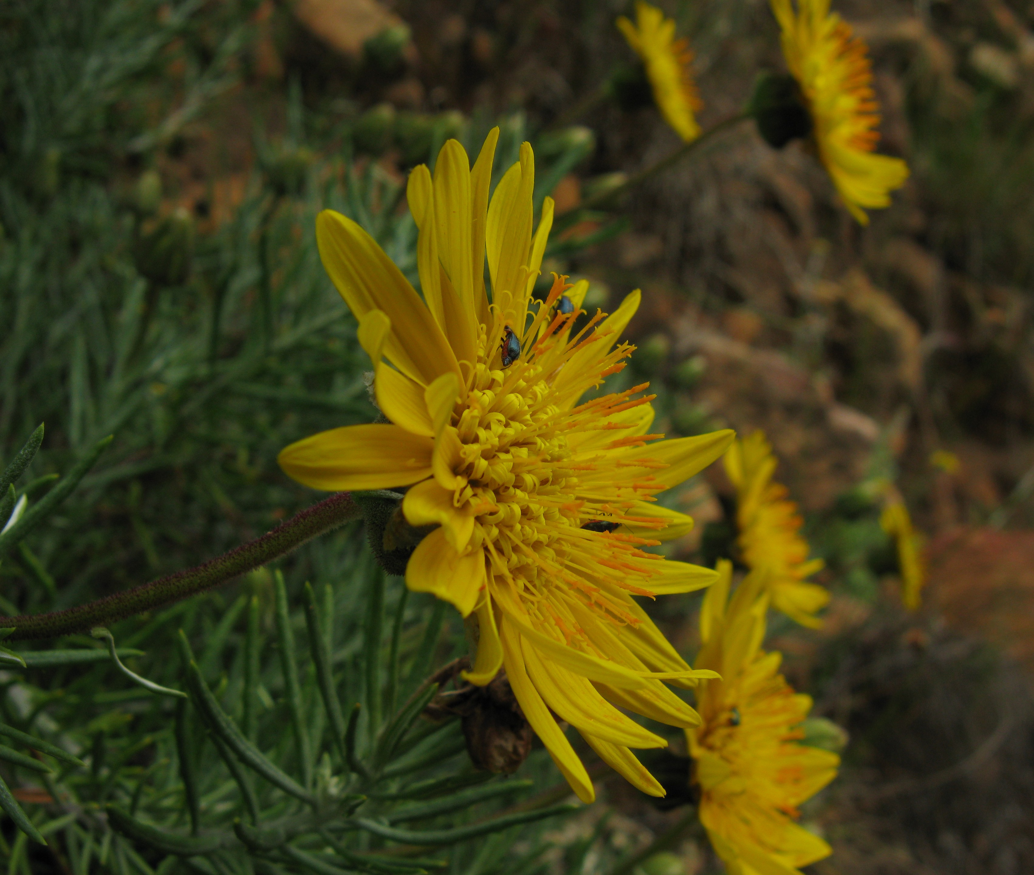 Heterolepis aliena. Coined name: "Rock daisy", Flowerhead with attendant pollinator beetles, lateral aspect